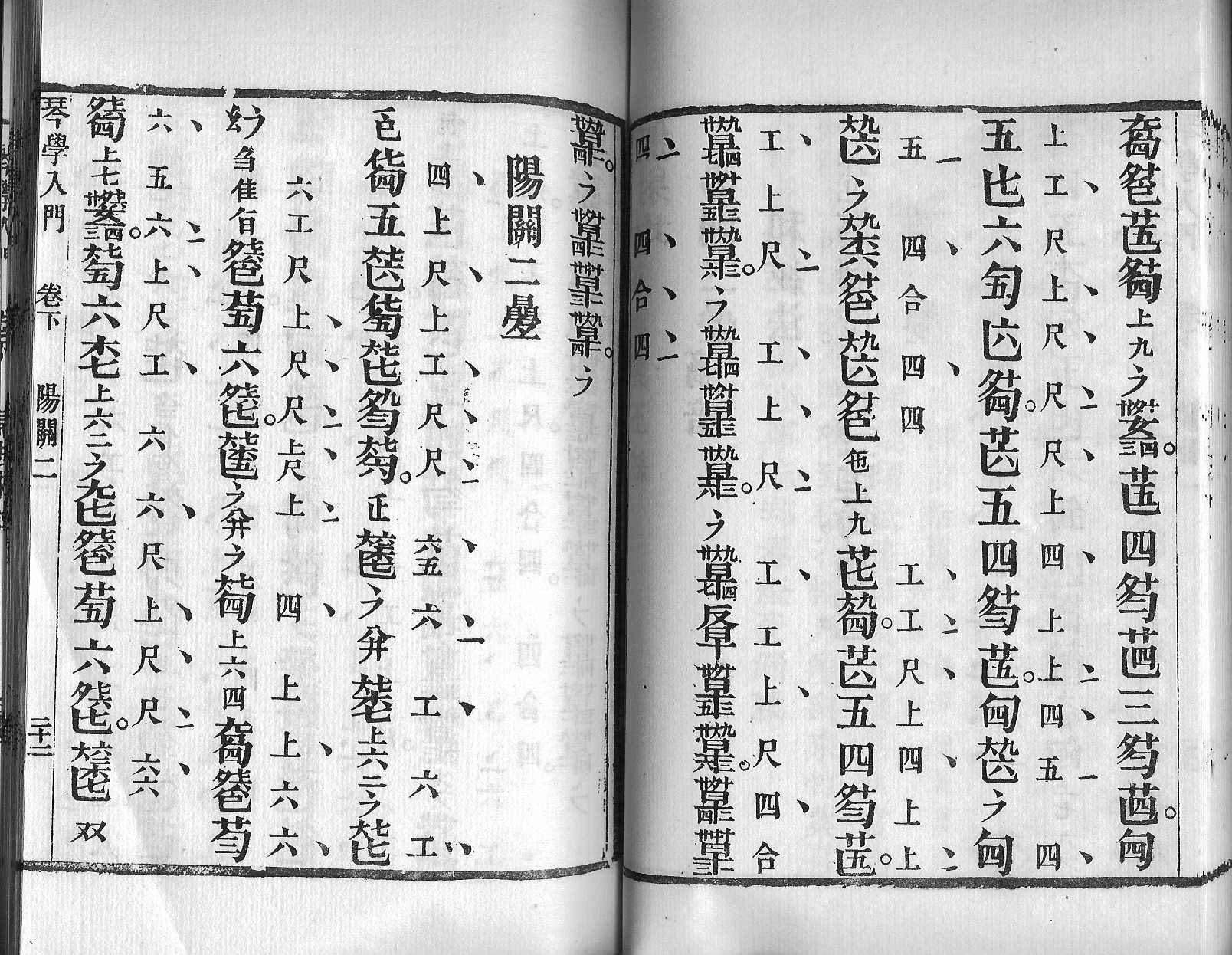 Two scanned pages from second volumn 陽關三疊(Yeung Kwan Sam Tip, Three Refrains on the Yang Pass Theme) in the score book 琴學入門(Kam Hok Yap Mun) written by 張鶴(Cheung Hok) in 1864.